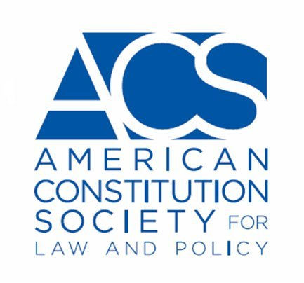 Square logo of the American Constitution Society for Law and Policy.